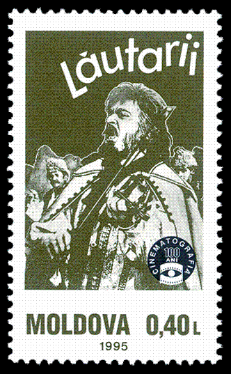 Stamp of Moldova